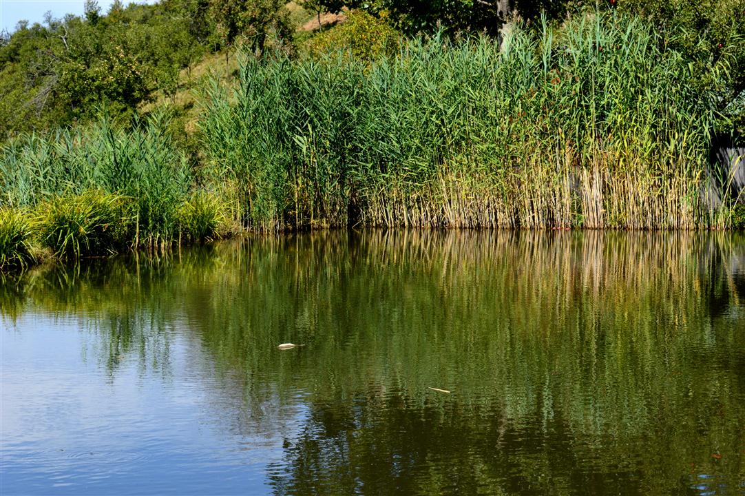 Raska Municipality - Semeteško Lake